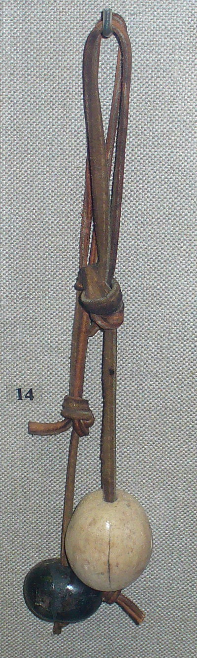 Sort of slungshot with bone balls, Russia, 10 century.